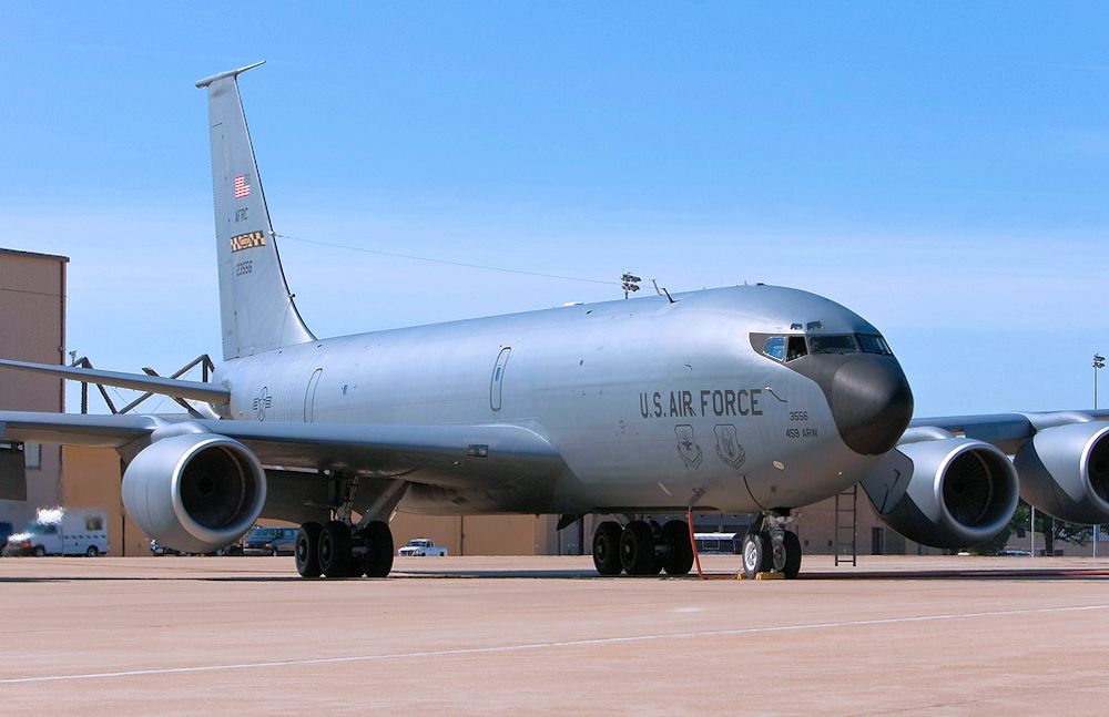 Members of the 459th Air Refueling Wing arrive on a KC-135R Stratotankers after serving on an extended deployment to Guam on June 30 at Joint Base Andrews, MD. Additional KC-135R Stratotankers carrying wing servicemembers are also scheduled to return. (U.S. Air Force photo/Tech.Sgt Michael Marra)